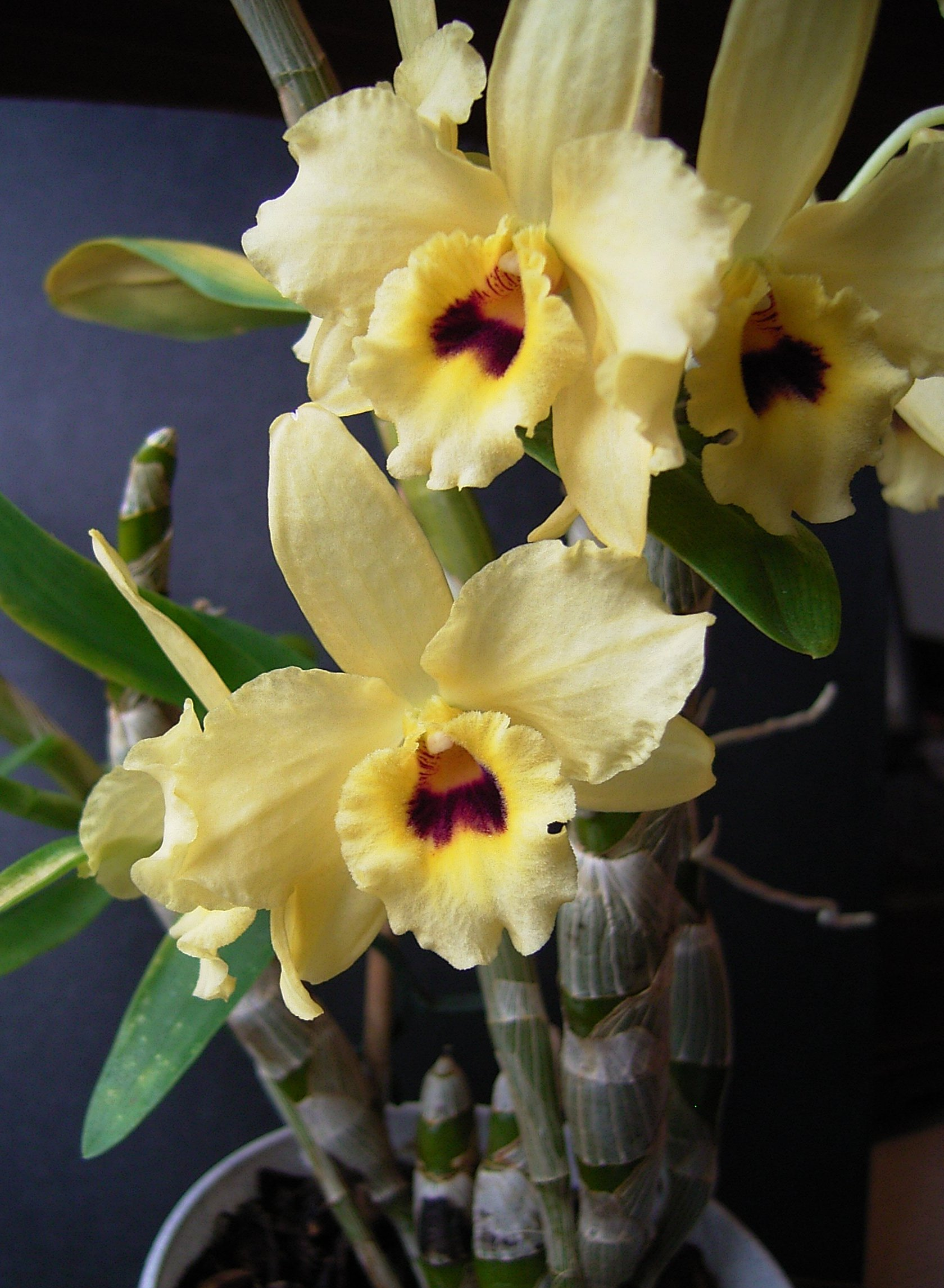 Hybrid of Dendrobium nobile (Orchid)